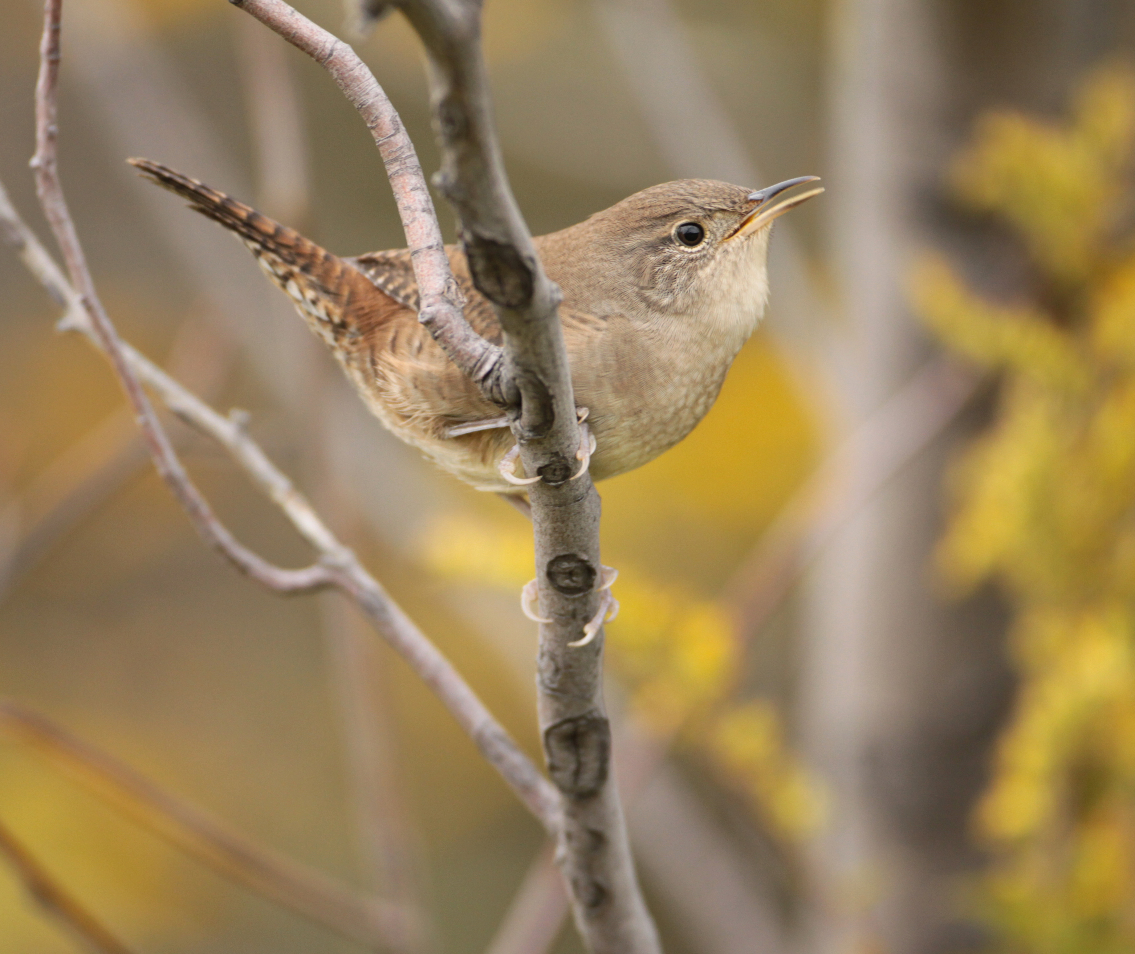 House Wren Troglodytes aedon aedon, Finzel Swamp Nature Preserve, Garrett Co., Maryland